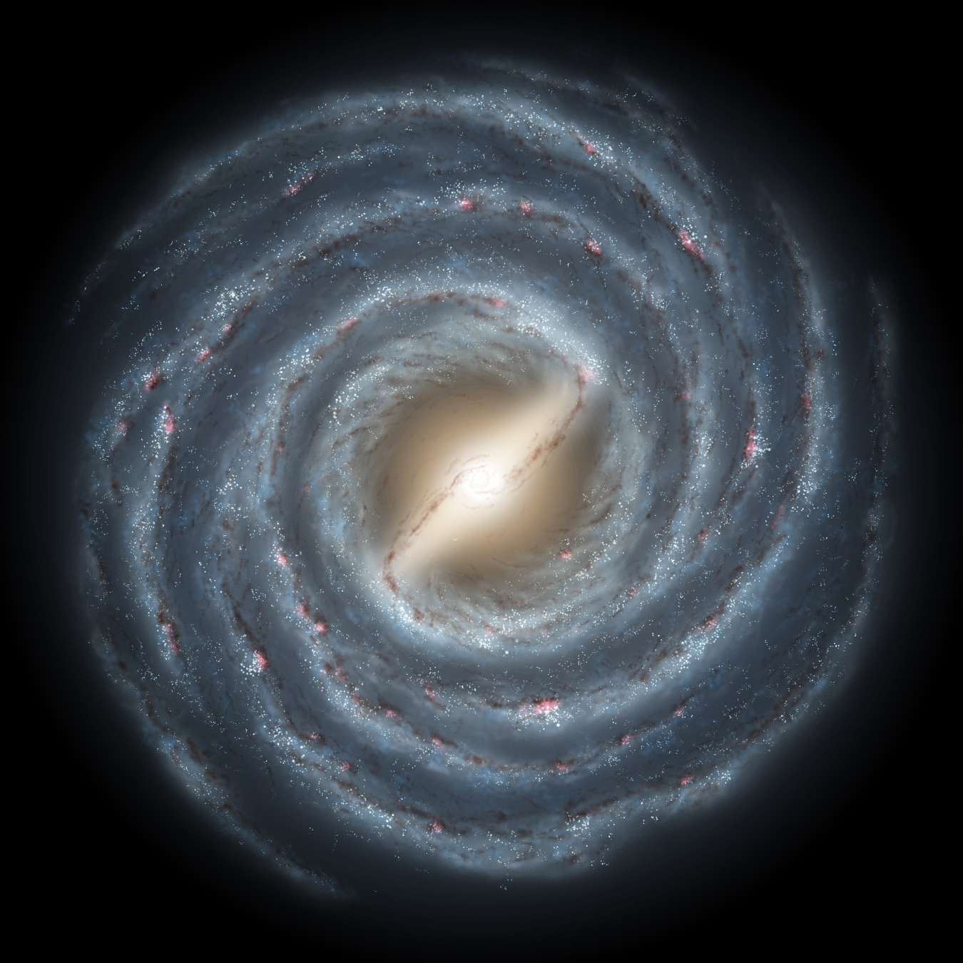 Caption from NASA: Like early explorers mapping the continents of our globe, astronomers are busy charting the spiral structure of our galaxy, the Milky Way. Using infrared images from NASA's Spitzer Space Telescope, scientists have discovered that the Milky Way's elegant spiral structure is dominated by just two arms wrapping off the ends of a central bar of stars. Previously, our galaxy was thought to possess four major arms. This artist's concept illustrates the new view of the Milky Way, along with other findings presented at the 212th American Astronomical Society meeting in St. Louis, Mo. The galaxy's two major arms (Scutum-Centaurus and Perseus) can be seen attached to the ends of a thick central bar, while the two now-demoted minor arms (Norma and Sagittarius) are less distinct and located between the major arms. The major arms consist of the highest densities of both young and old stars; the minor arms are primarily filled with gas and pockets of star-forming activity. The artist's concept also includes a new spiral arm, called the "Far-3 kiloparsec arm," discovered via a radio-telescope survey of gas in the Milky Way. This arm is shorter than the two major arms and lies along the bar of the galaxy. Our sun lies near a small, partial arm called the Orion Arm, or Orion Spur, located between the Sagittarius and Perseus arms.